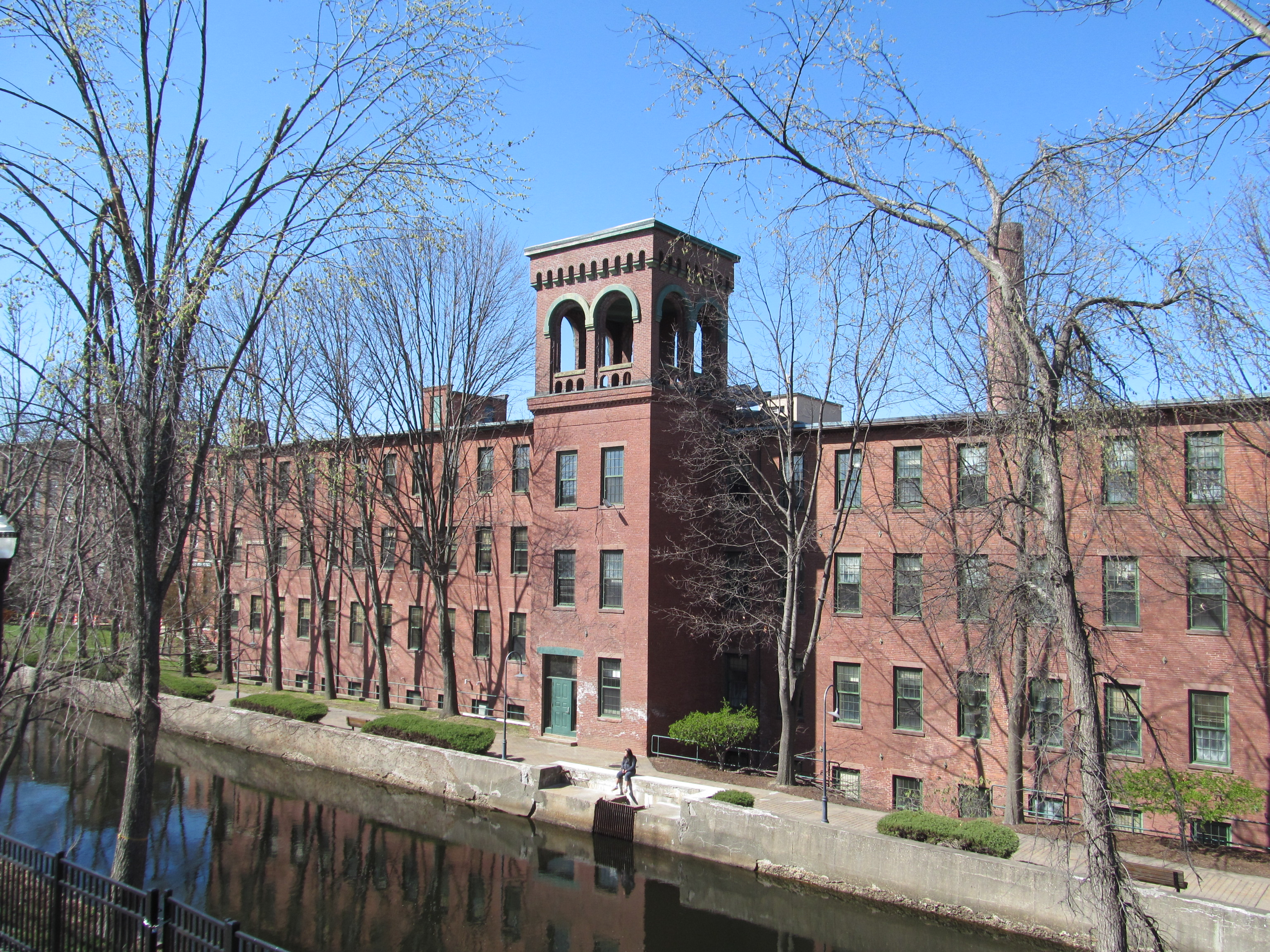 The Apartments at Ames Privilege (formerly the Ames Mfg. Co. factory), Chicopee Massachusetts